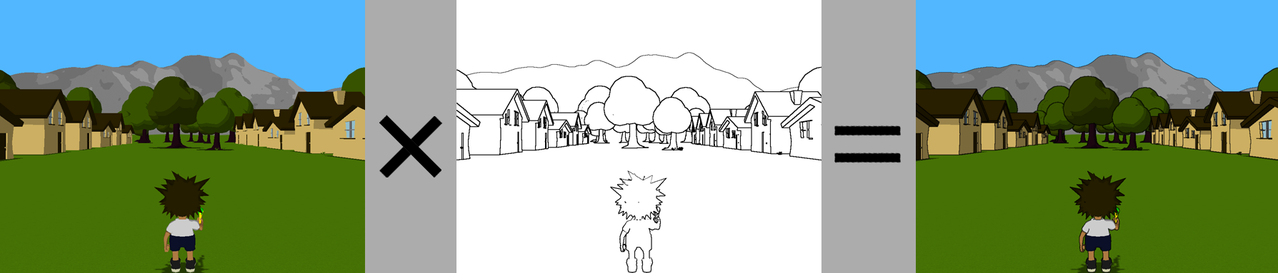 a diagram showing a cel-shaded scene and the output of an edge detection filter combined to produce a final composite image